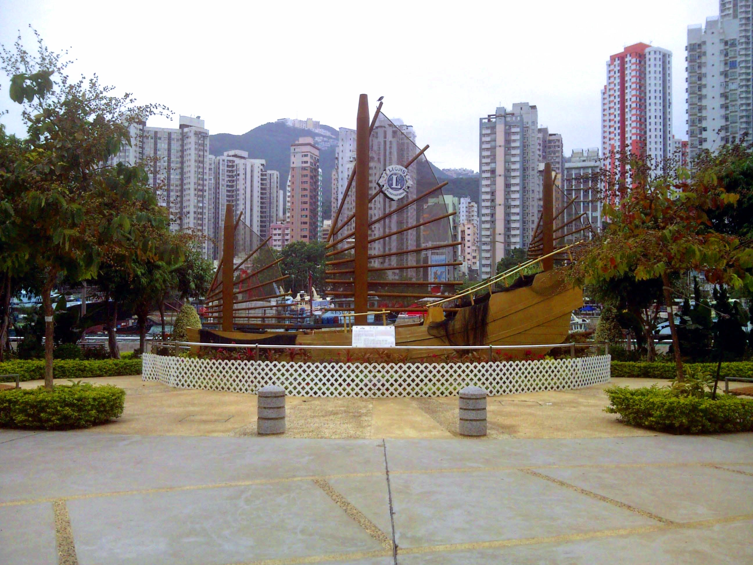 Ap Lei Chau Waterfront Promenade Boat Model